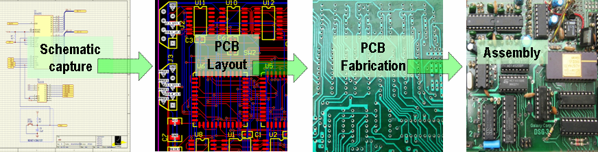 PCB Manufacturing Stages